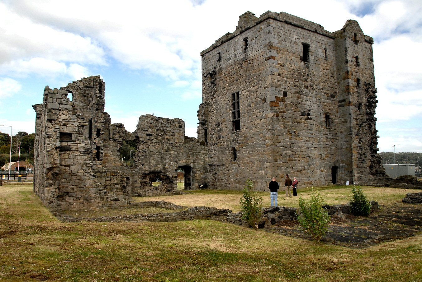 Rosyth Castle, Fife. Photograph by David Kelly.